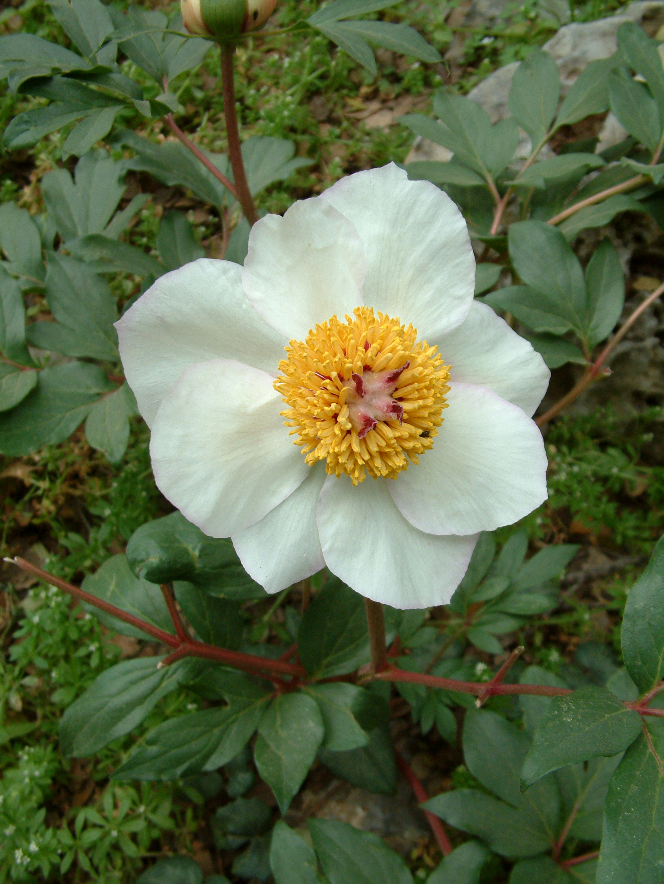 This is a photography of Natura 2000 protected area with ID GR4320010